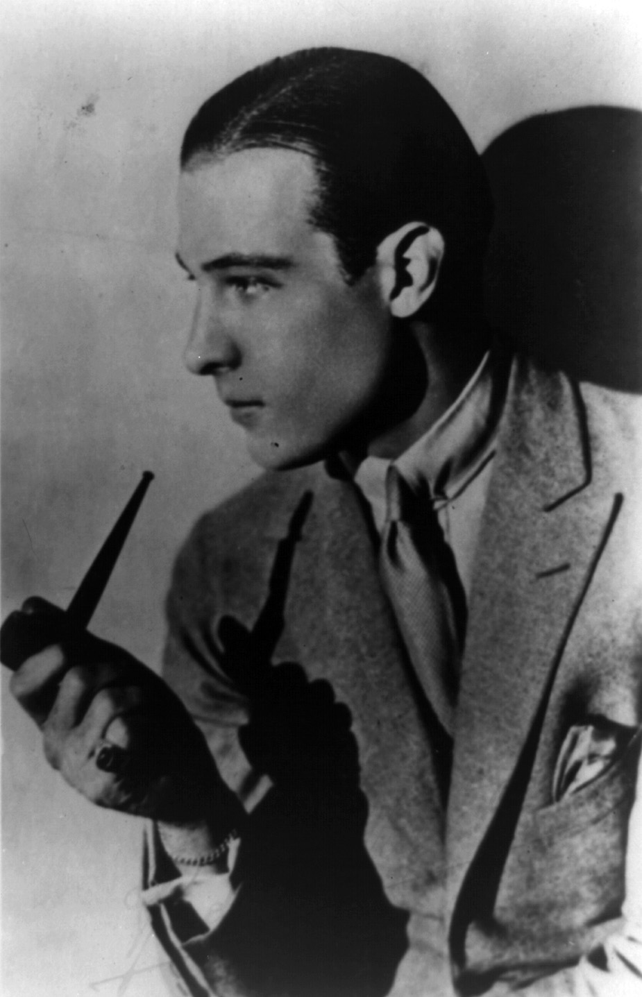 RUDOLPH VALENTINO. Photograph. [Between 1915 and 1926.] Location: Biographical File, Reproduction Number: LC-USZ62-90327